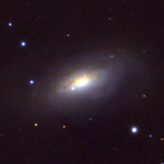 PanSTARRS image of NGC 3285.